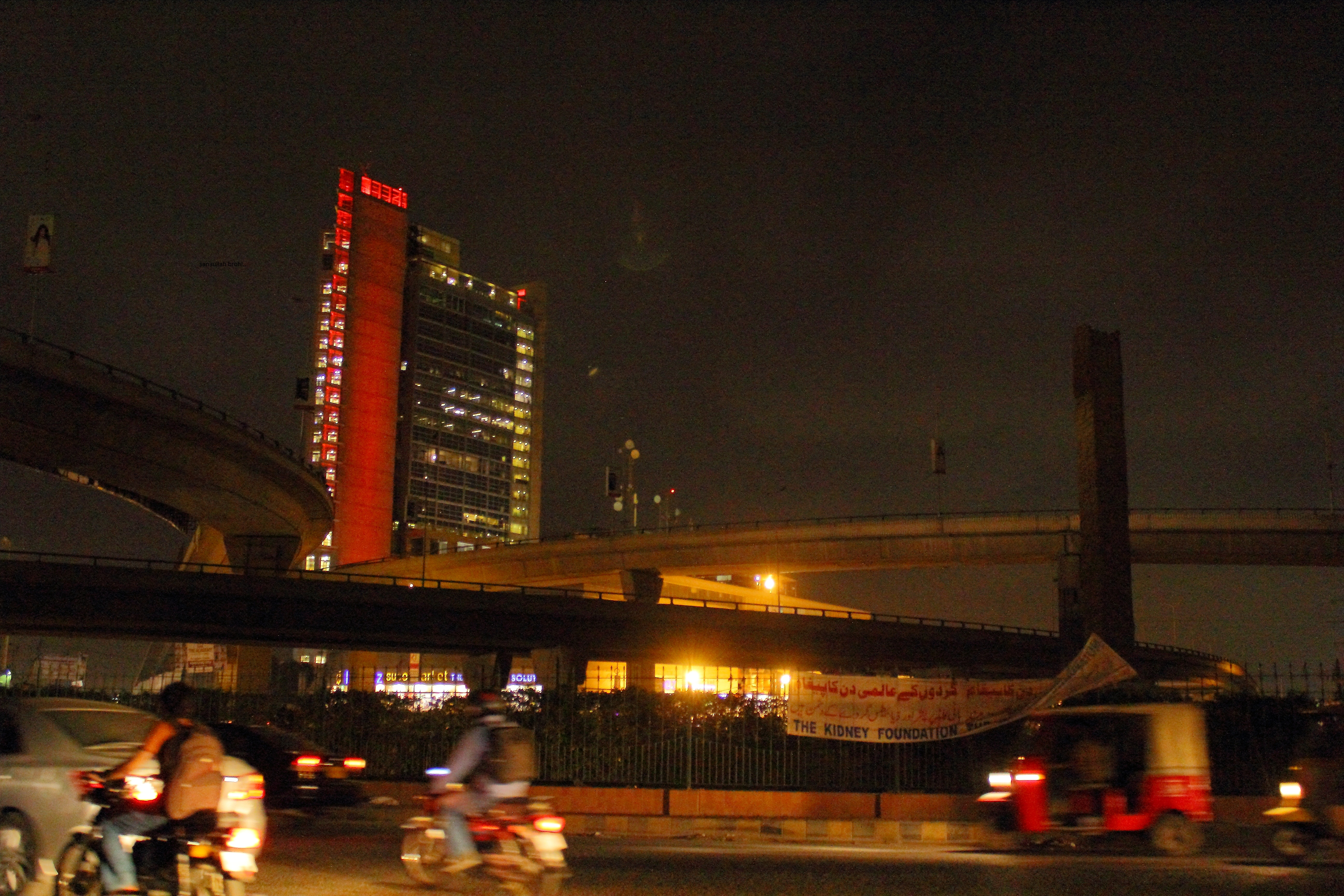 Korangi Road Karachi, Sindh.